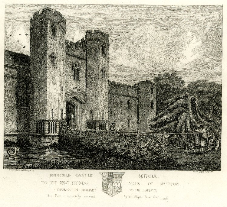 "Wingfield Castle, Suffolk," etching, by the British printmaker Henry Davy. 268 mm x 330 mm. Courtesy of the British Museum, London. Reverend Thomas Mills (1791-1879) was the son of Thomas Mills and Mary Story. In 1815 he married Anne Barnardiston, daughter of Nathaniel Barnardiston and Elizabeth Joanna Styles. He died on 29 September 1879 at age 87 at Stutton, Suffolk. He was Rector between 1821 and 1879 at Sutton, Great Saxham, Suffolk ( and Chaplain in Ordinary to Queen Victoria. Canting arms of various families surnamed Mills include a fer de moline or millrind.